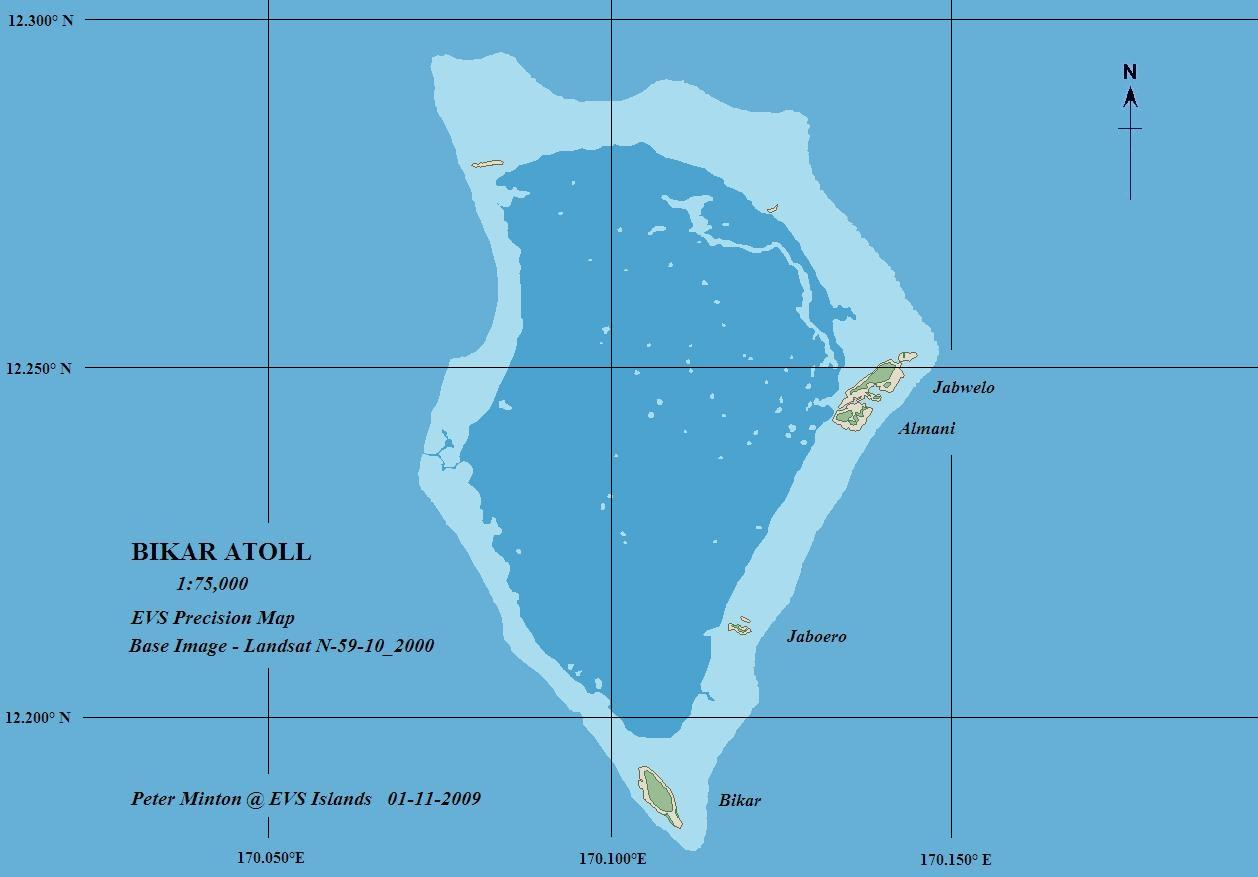 Bikar Atoll, RMI, enhanced vector shoreline map, with color coding for vegetation, bare land, reef shallows, lagoon, and open ocean.